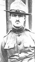 Captain Frank Hunter, USAAS, World War I